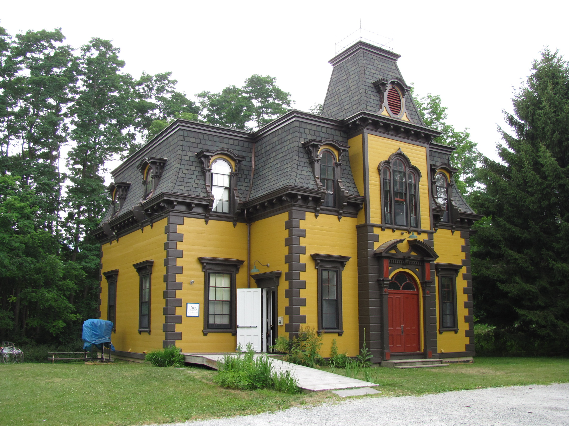 Citizens Hall, Interlaken Massachusetts - currently the IS183 Art School of the Berkshires